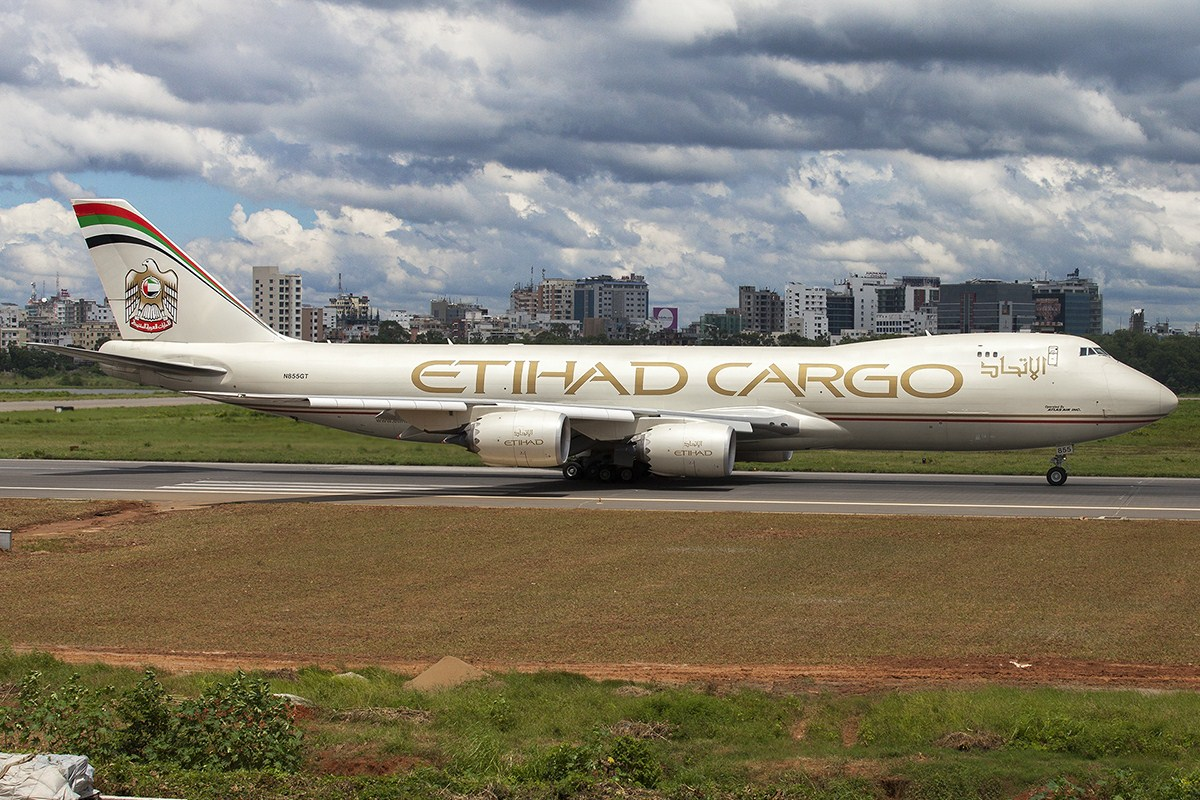 Aircraft Spotting In BANGLADESH By Murad Hashan